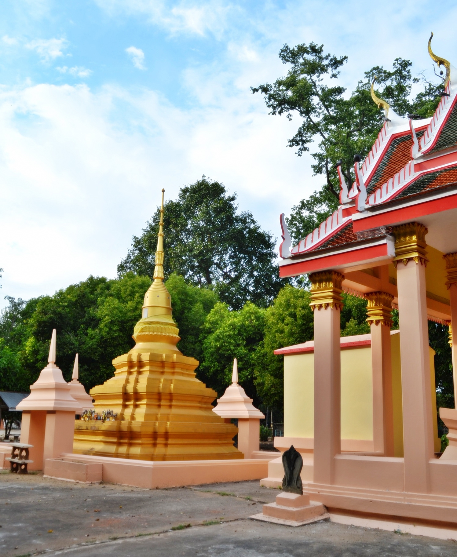 Wat Wang Mu Mueang Uttaradit, Uttaradit Province, Thailand. on March 17, 2009.